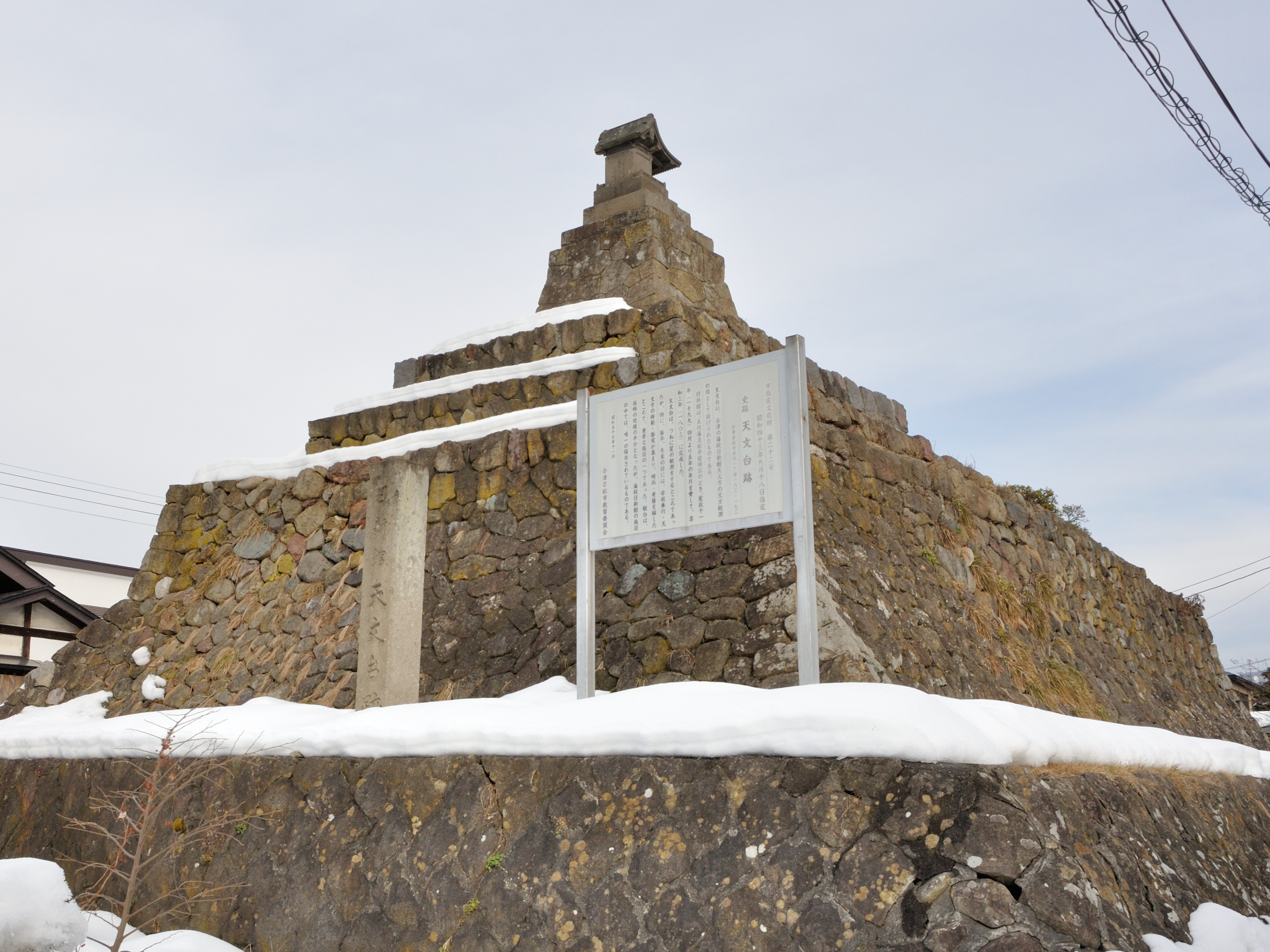 Photograph of Nissinkan astronomical observatory remains exterior. address 1-1 Yonedai, Aizuwakamatsu City, Fukushima Prefecture, Japan photo date and time 14:29 January 24, 2014